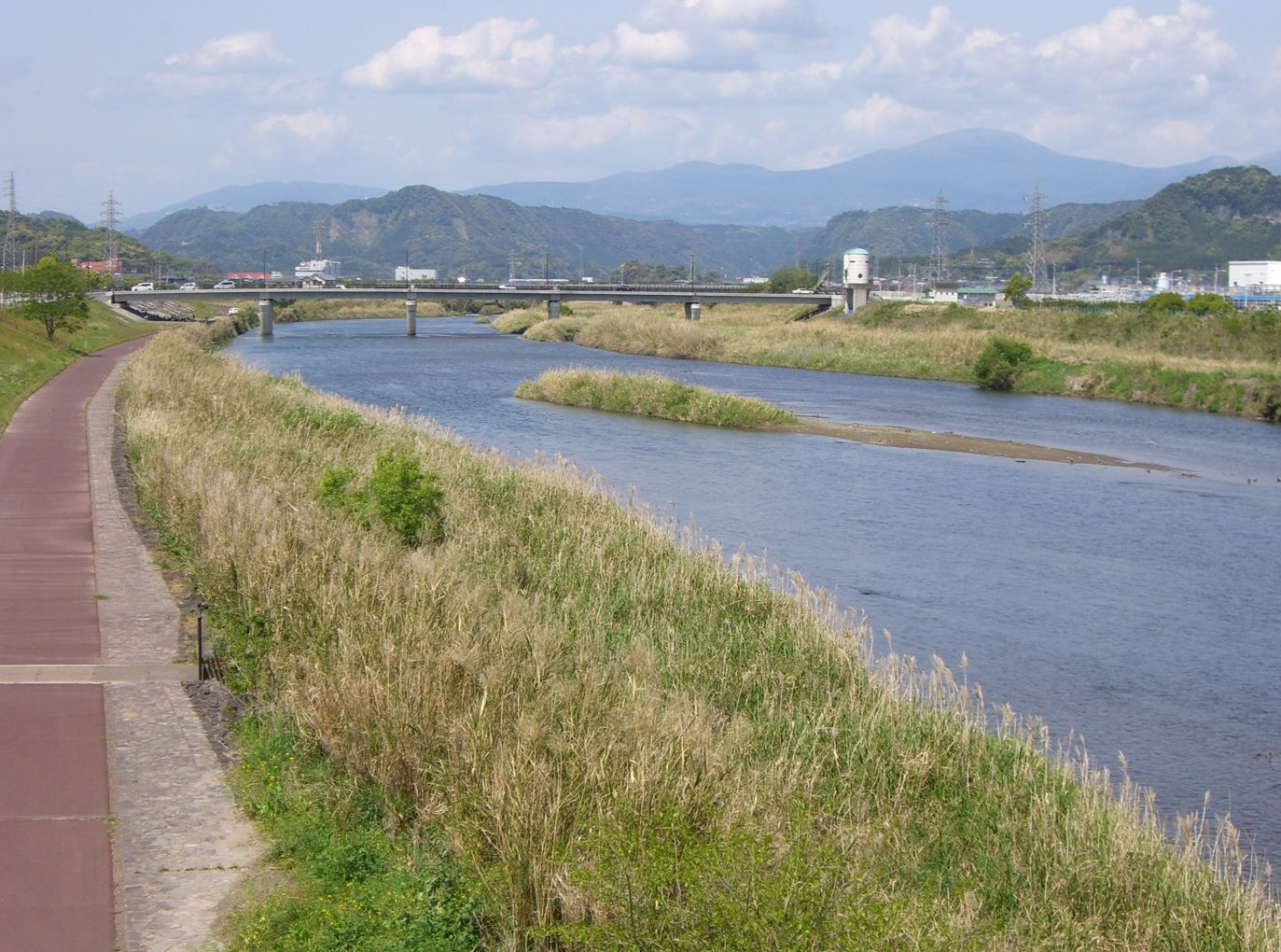 Amorigawa river in Kirishima City, Kagoshima, Japan.(霧島市内を流れる天降川)